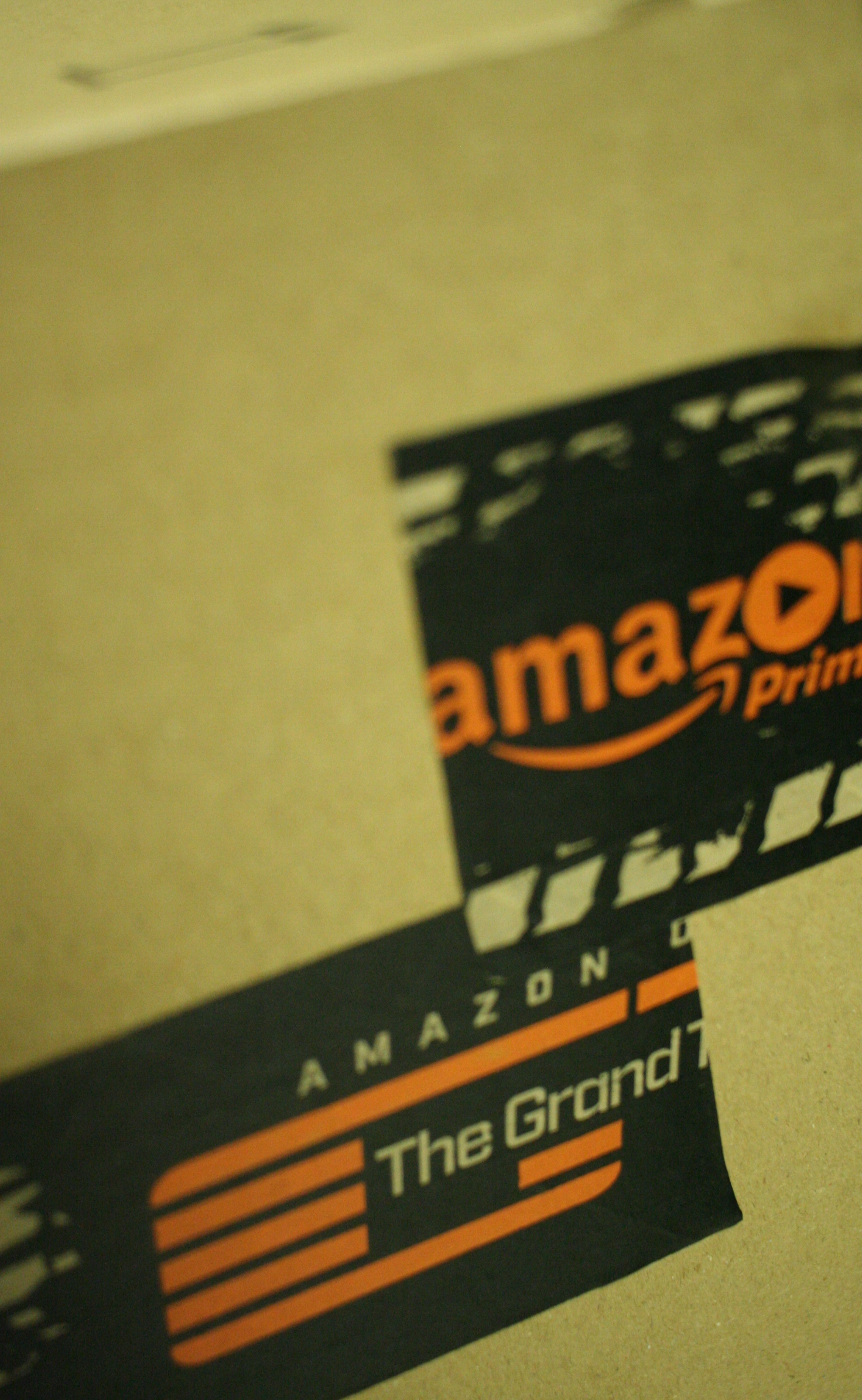 The Grand Tour (TV series)/Amazon Prime box packaging tape seen on a cardboard box. The photograph shows two small sections of the repeating "tyre mark" pattern, and both logos are significantly cropped. The short depth of field used also ensures that 'Amazon' logo also exhibits substantial focal blue, allowing the general essence of the packaging tape design to be demonstrated but without reproducing either of the logos in a usable form.